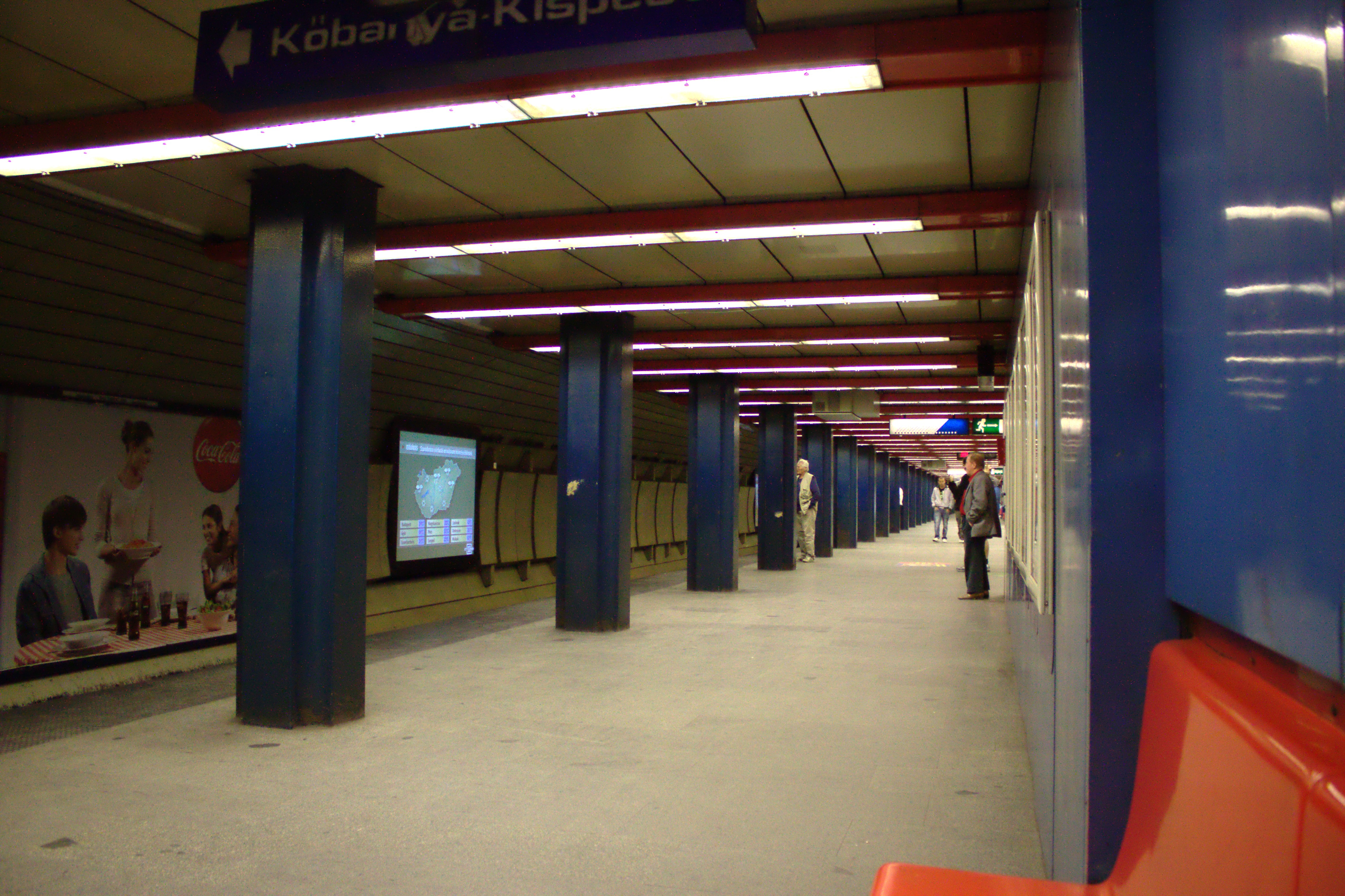 Nyugati Pályuadvar metro station, Budapest